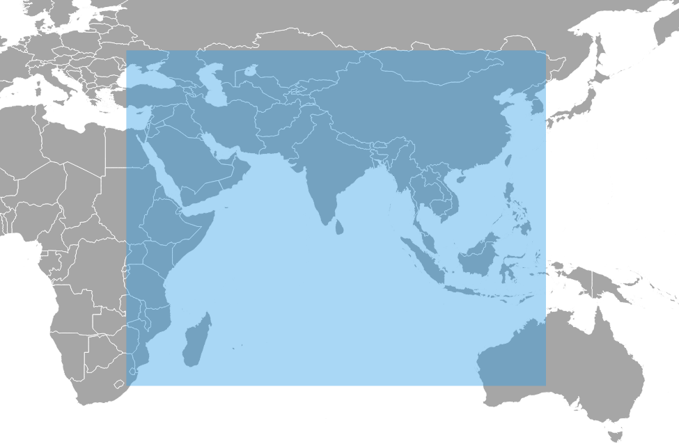 The approximate "extended service coverage" of the initial seven-satellite Indian Regional Navigation Satellite System.